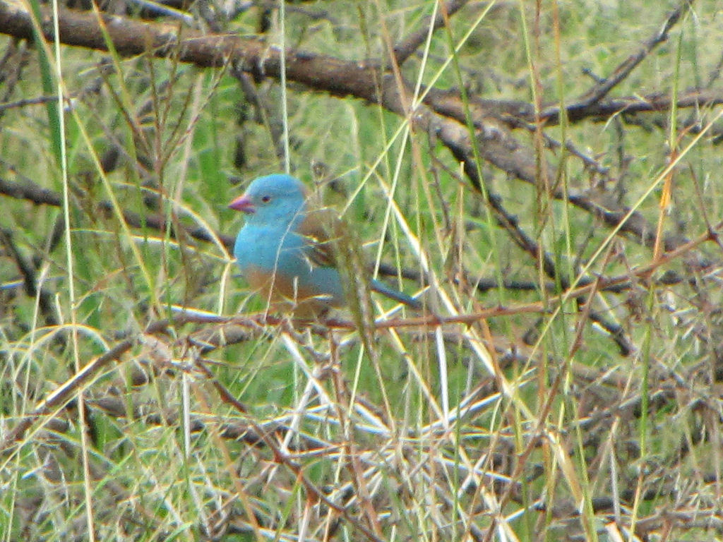 Blue-capped Cordon-bleu (Uraeginthus cyanocephalus) taken in Ngorongoro Park, Tanzania